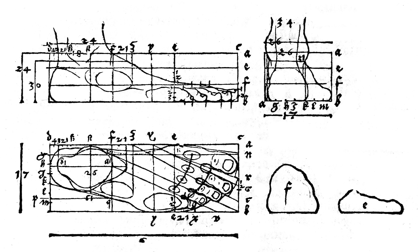 Orthographic projection by Albrecht Dürer